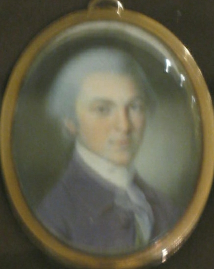 Le Duc de Liancourt ca.1794-1797 Charles Willson Peale Born: Maryland 1741 Died: Philadelphia, Pennsylvania 1827 watercolor on ivory 1 5/8 x 1 3/8 in. (4.1 x 3.4 cm) oval Smithsonian American Art Museum Museum purchase 1974.87 Smithsonian American Art Museum 3rd Floor, Luce Foundation Center